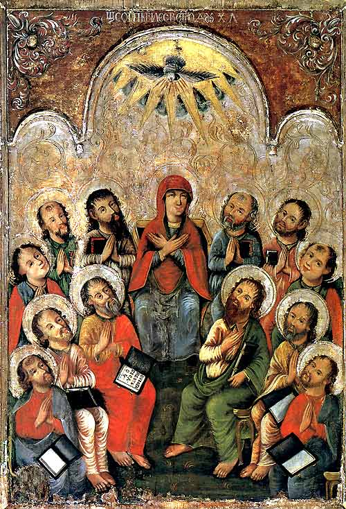 The Pentecost. Latter half of the 18th c.